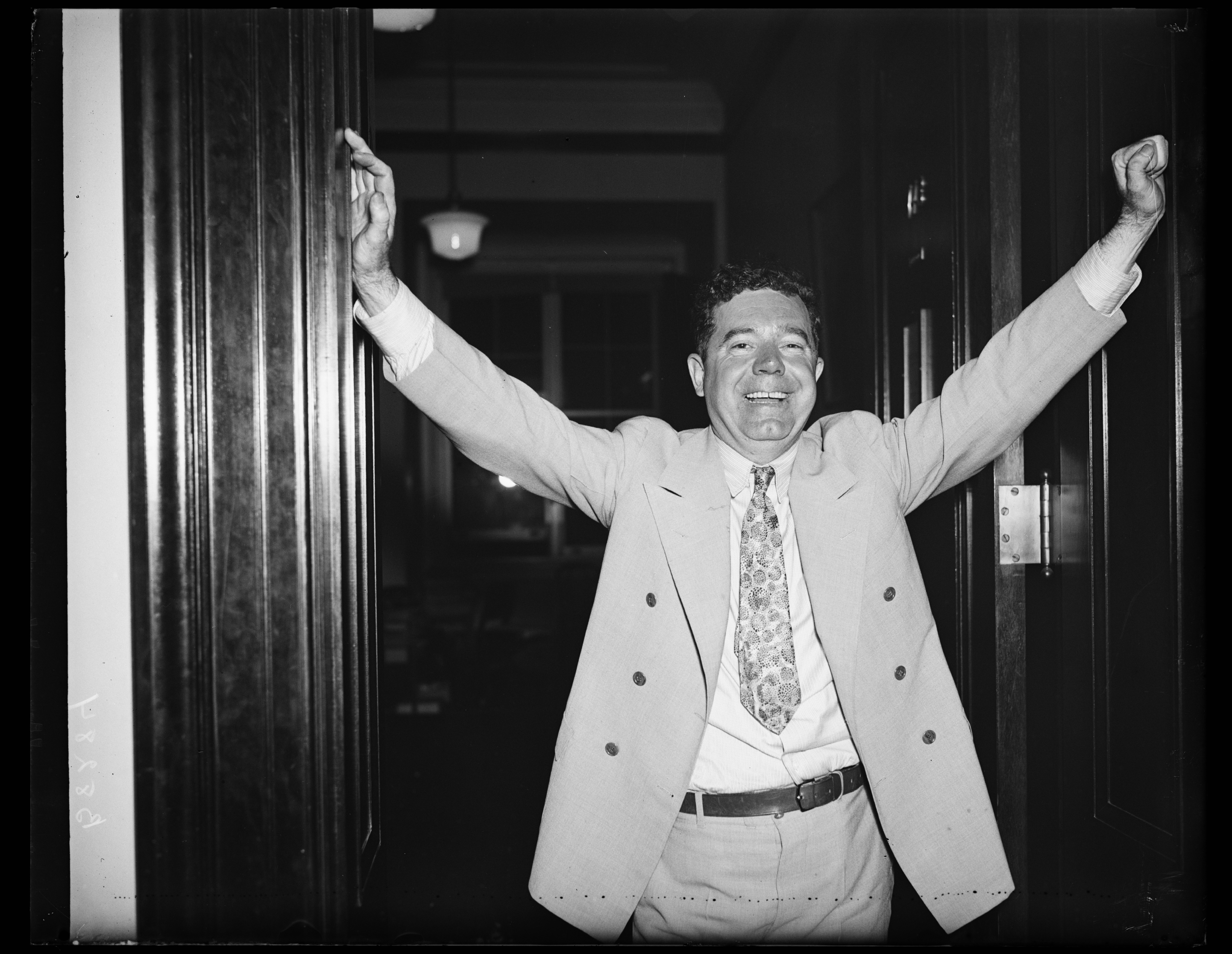 A long filibuster, Wash. D.C. A five and half hour filibuster by Sen. Long of Louisiana, caused the seventy-fourth congress, first session, to give up the ghost, without approval of the last of the President's "must" measures-the-third deficiency bill. Sen. Long, is shown as he left the floor of the Senate, and rested for the moment from his tireless efforts, 8/27/35